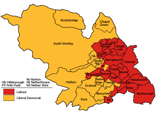 Ward map of Sheffield Council with political colouring for the 1994 election. Striped wards denote mixed representation.